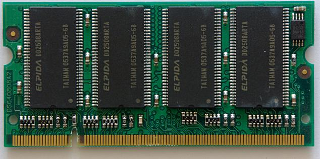 256MB PC2700 DDR SODIMM RAM module